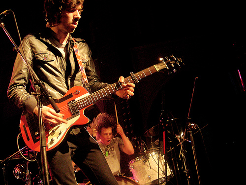 Self-made photo; The Black Box Revelation in 2007 as support act for dEUS. There's no copyright on this photo.